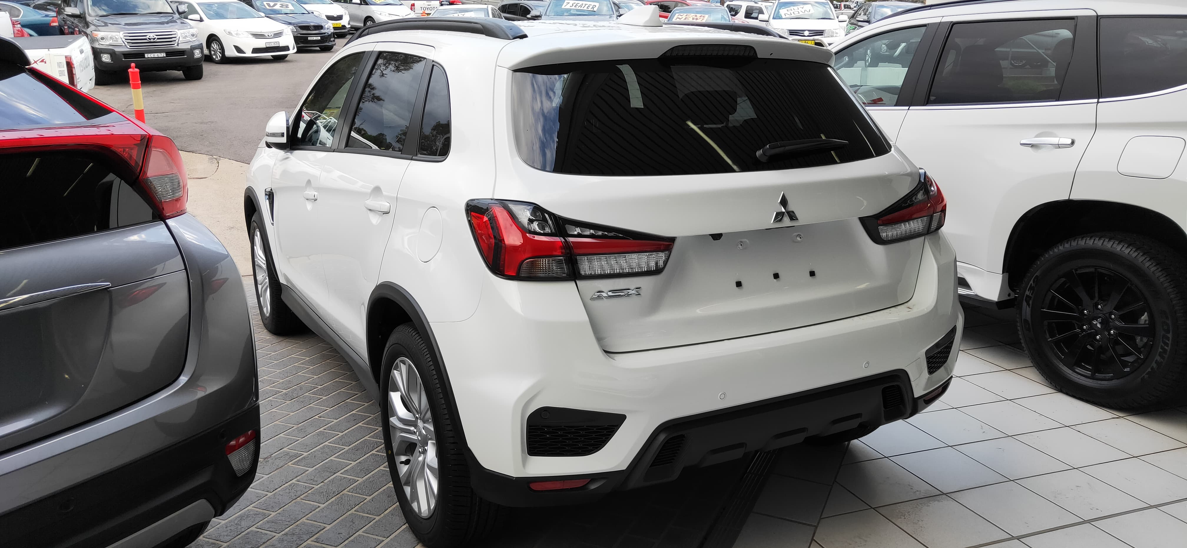 2020 Mitsubishi ASX, Rear